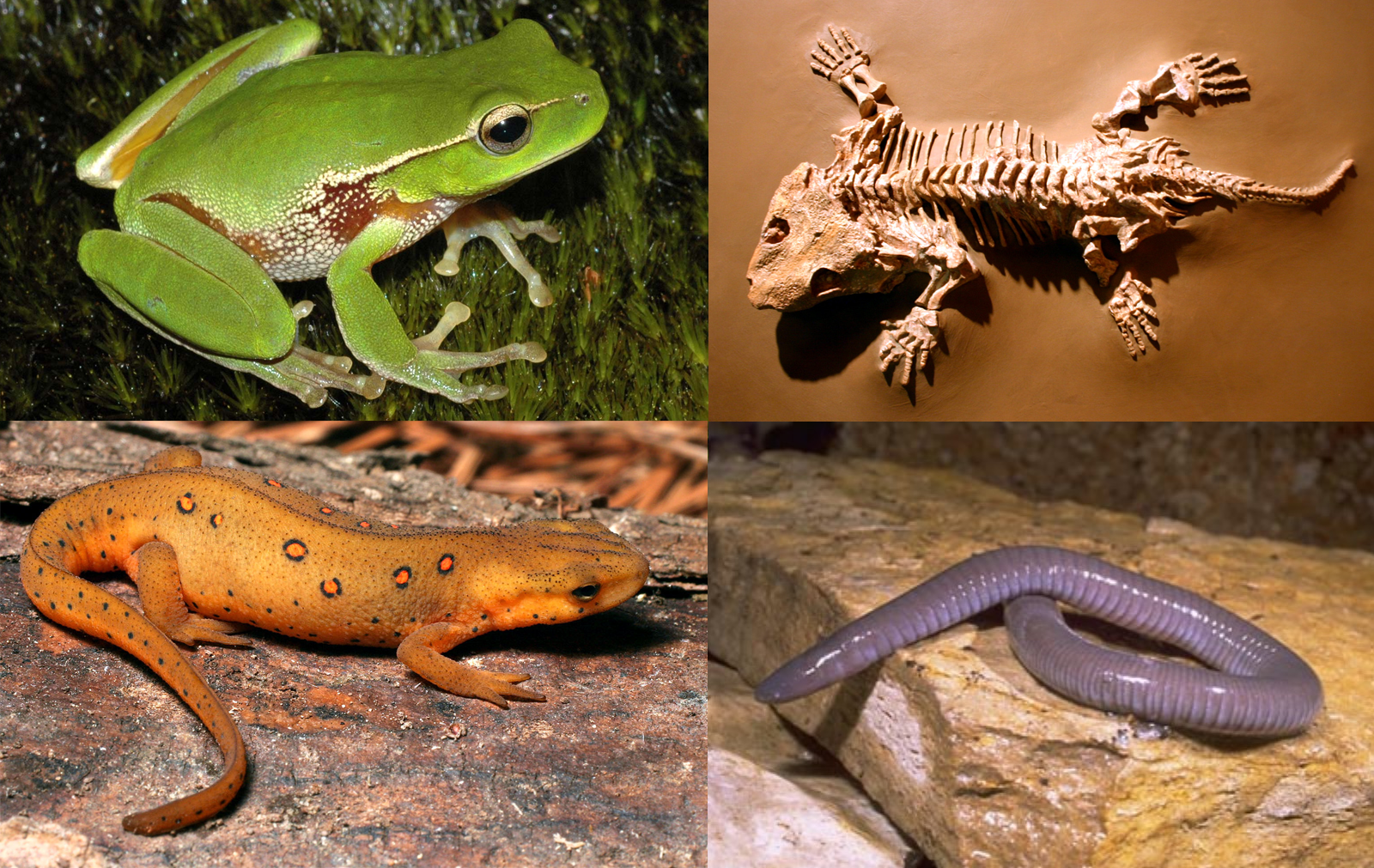 A collage of various amphibians